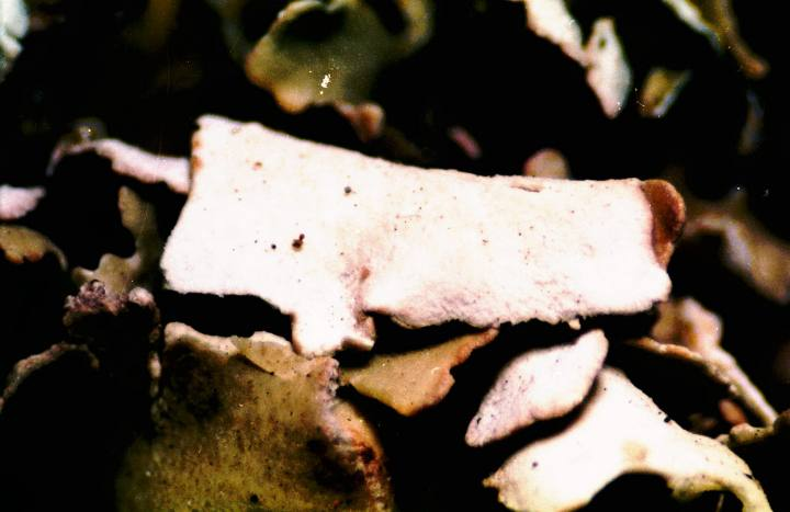 Cladonia apodocarpa Robbins, 1925 (photograph of a herbarium specimen taken through a dissecting microscope (x17) showing the white under surface of a squamule) Growing on soil in a waste place at the E side of Highway 17, 3.4 miles N from the entrance to Pancake Bay Provincial Park, Ontario, Canada; collected and identified by Richard E. Riefner (No. 81-295, 27 Jun 1981); specimen is now in the Lichen Herbarium of the New York Botanical Garden.